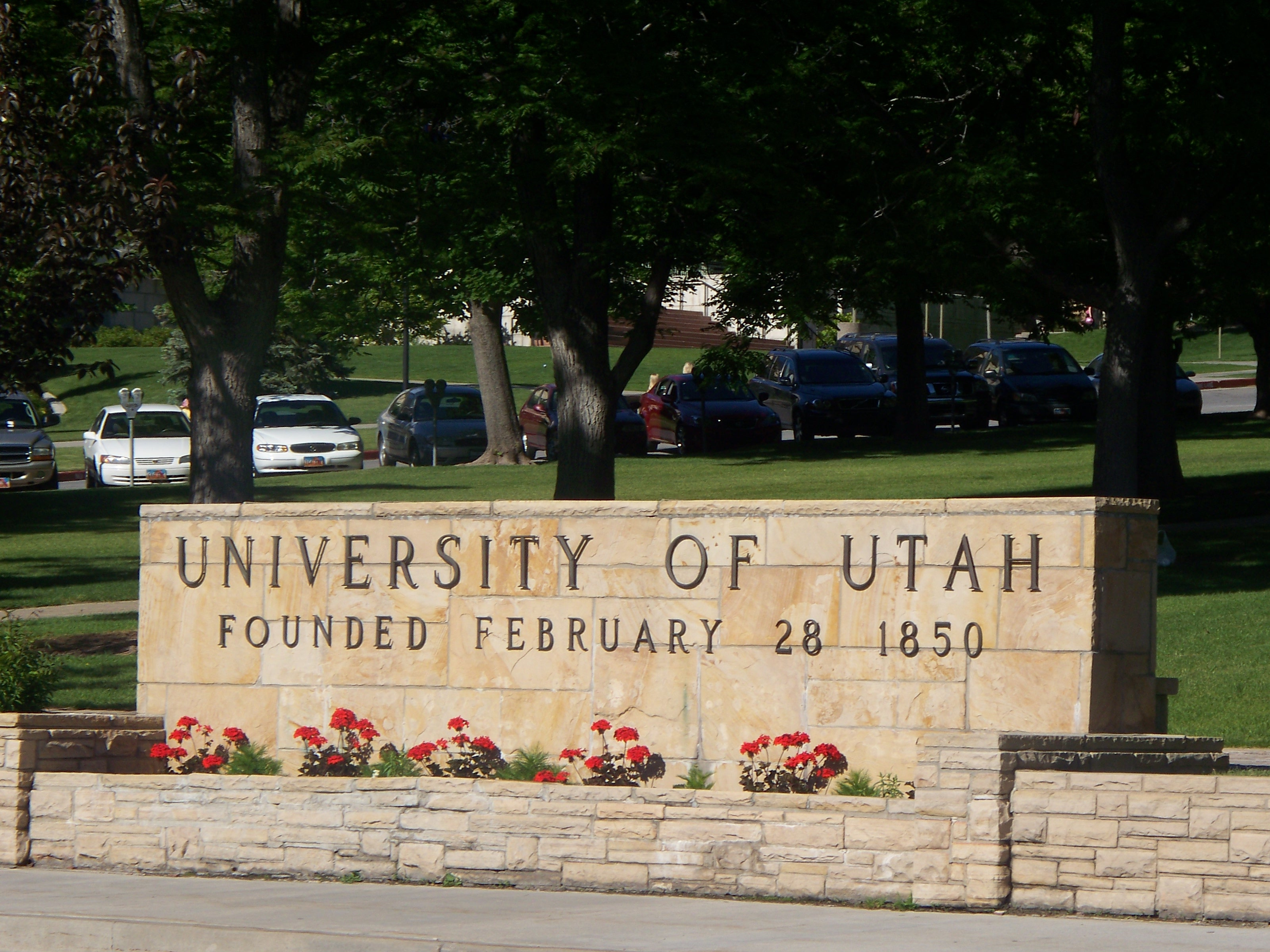 University of Utah